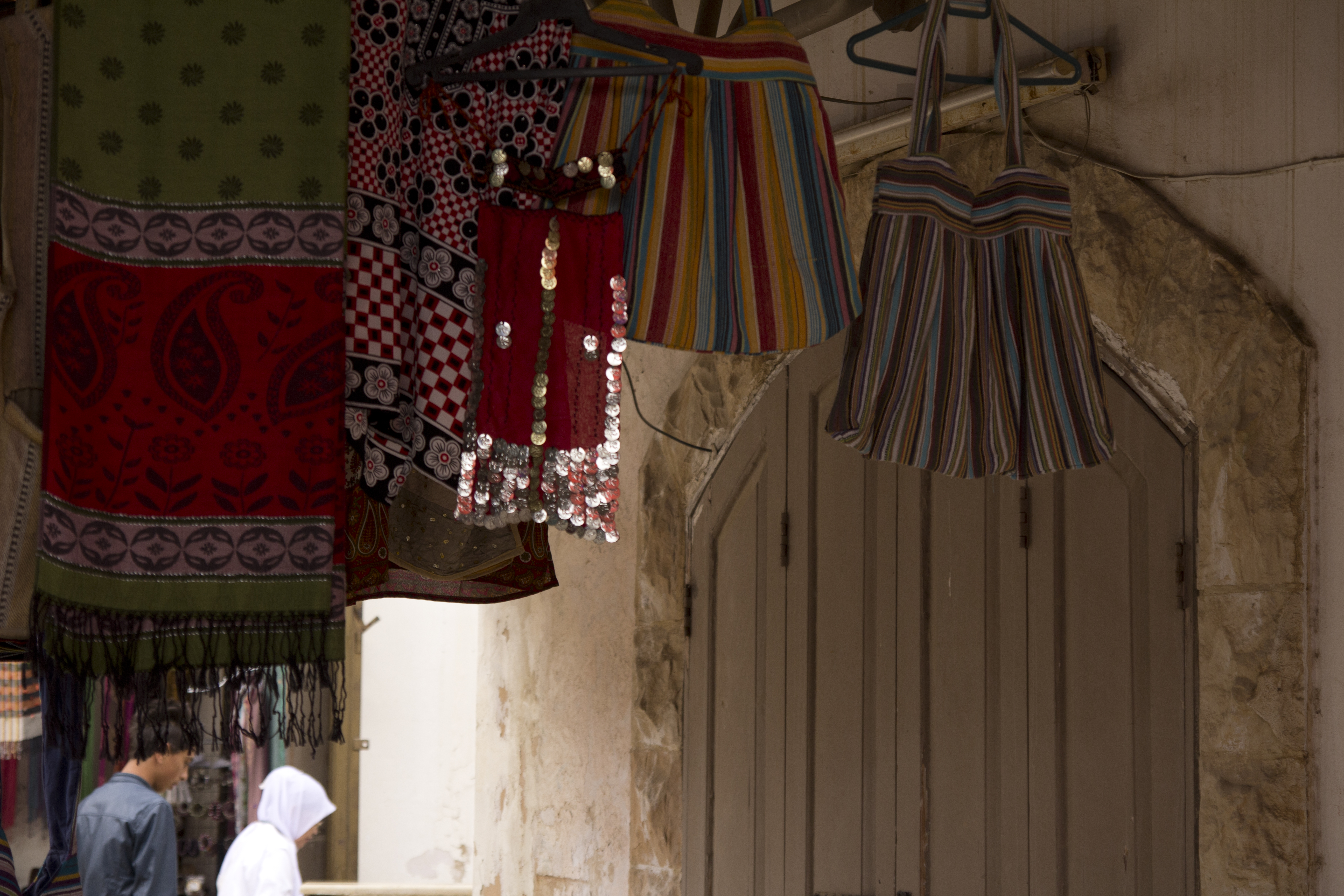 Jordan